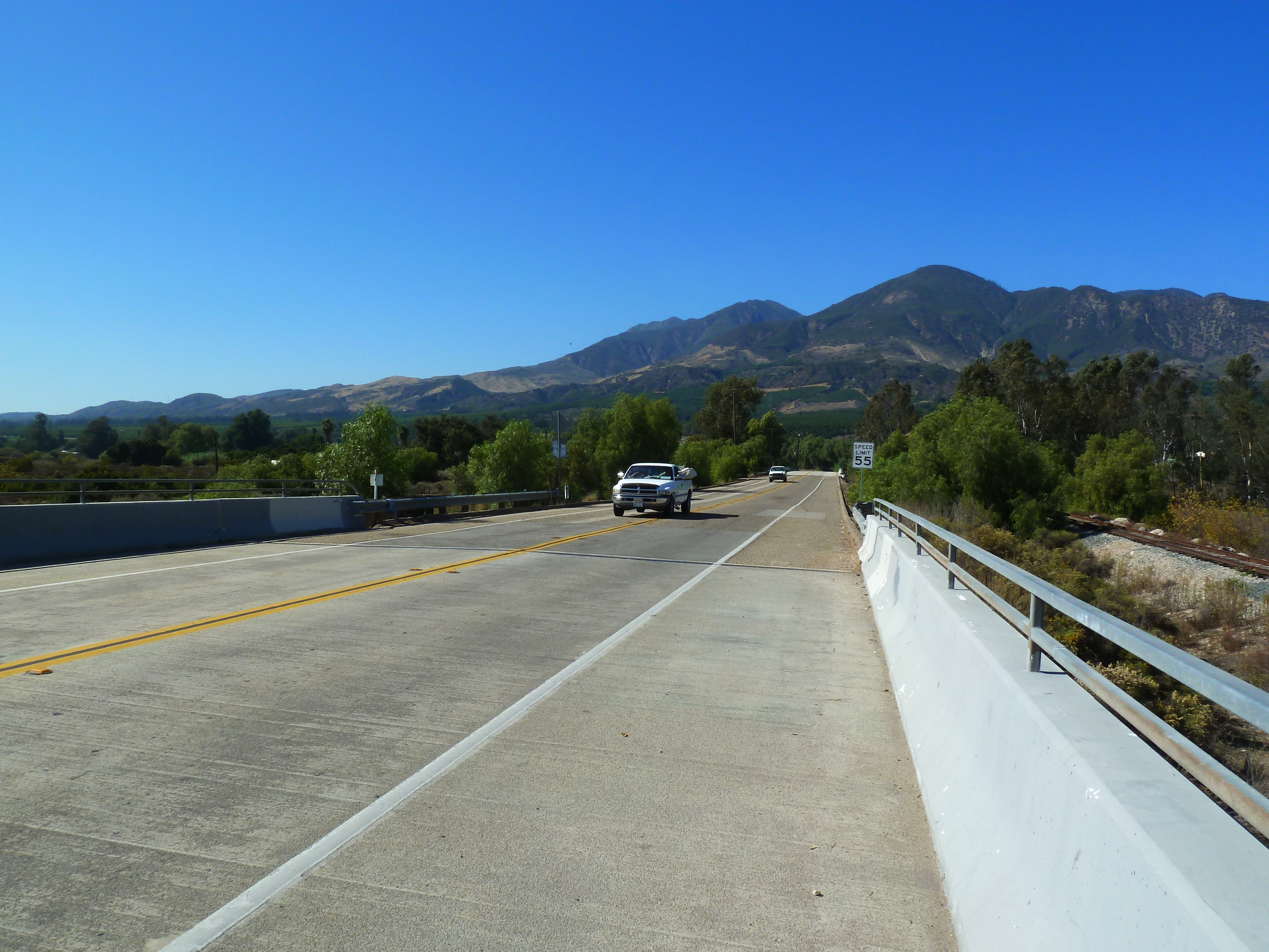 Fillmore, CA: View W, Old Telegraph Road, October 13, 2011